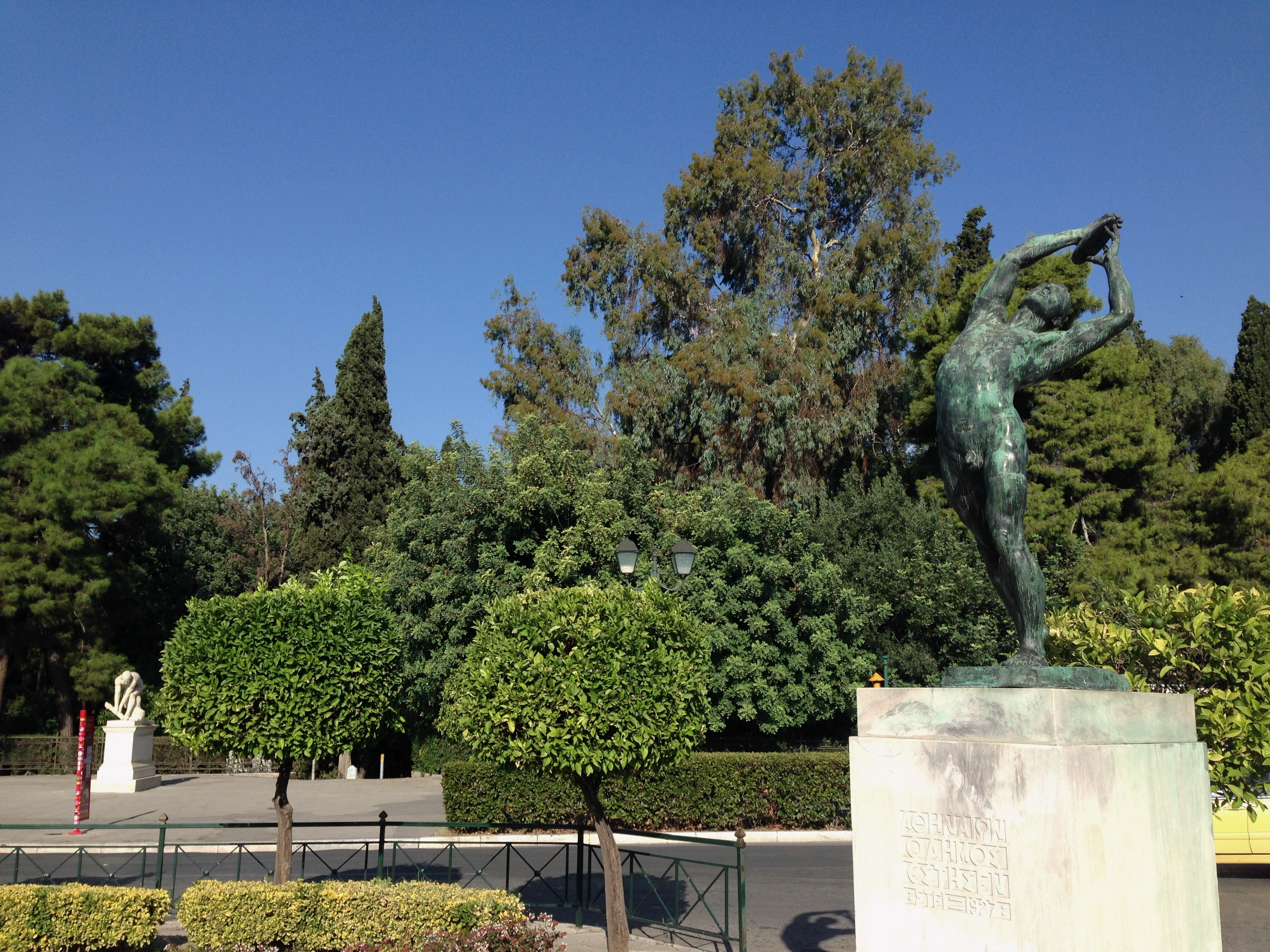 It was used for the Olympic Games in Paris 1924z